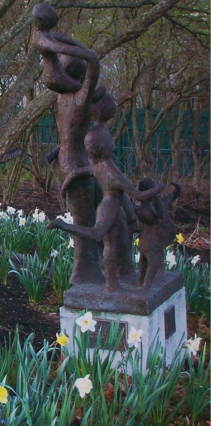 Alfred Tibor's sculpture "To Life", on the grounds of the Ohio Governor's Mansion.